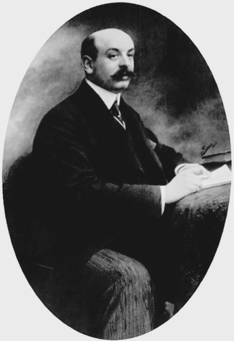 Gaston Goüin (1877-1921) - portrait peint